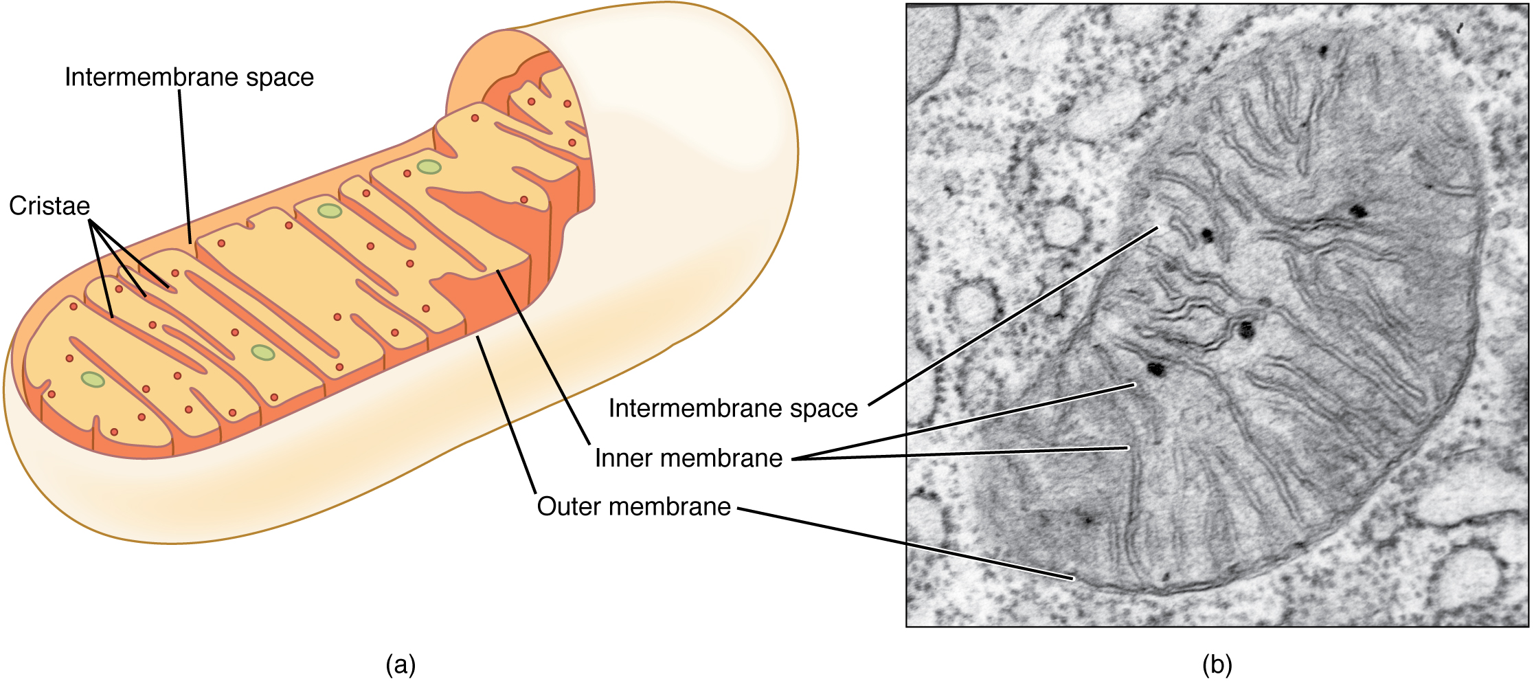 Version 8.25 from the Textbook OpenStax Anatomy and Physiology Published May 18, 2016